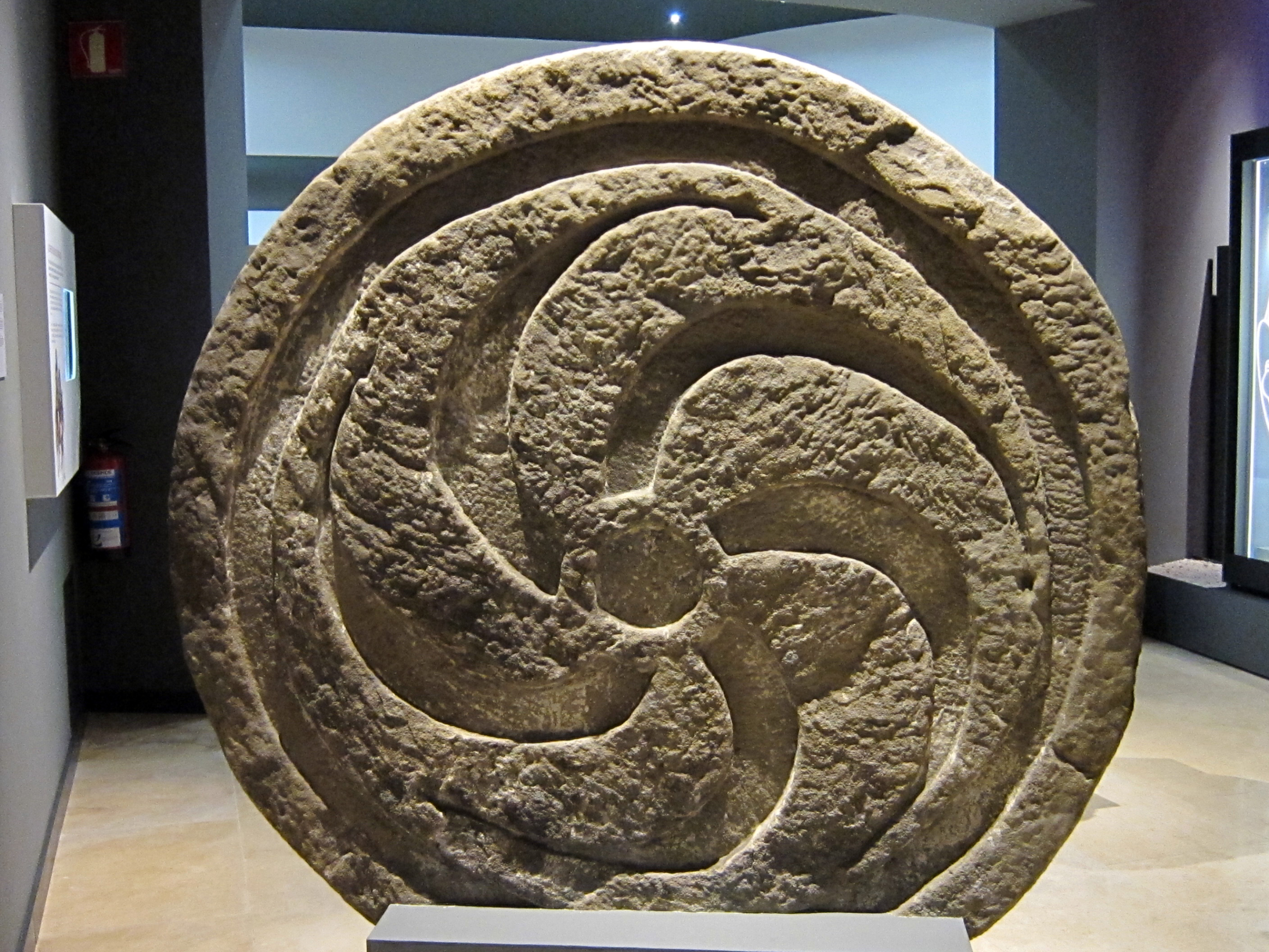 Museum of Prehistory and Archaeology of Cantabria. Reverse of the second stele from Lombera (Cantabria).